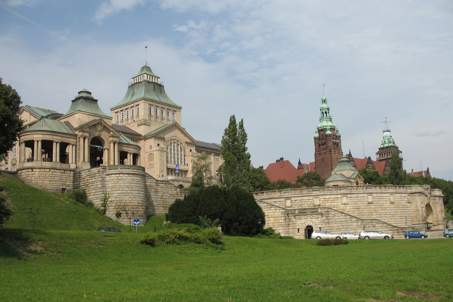 kolaż